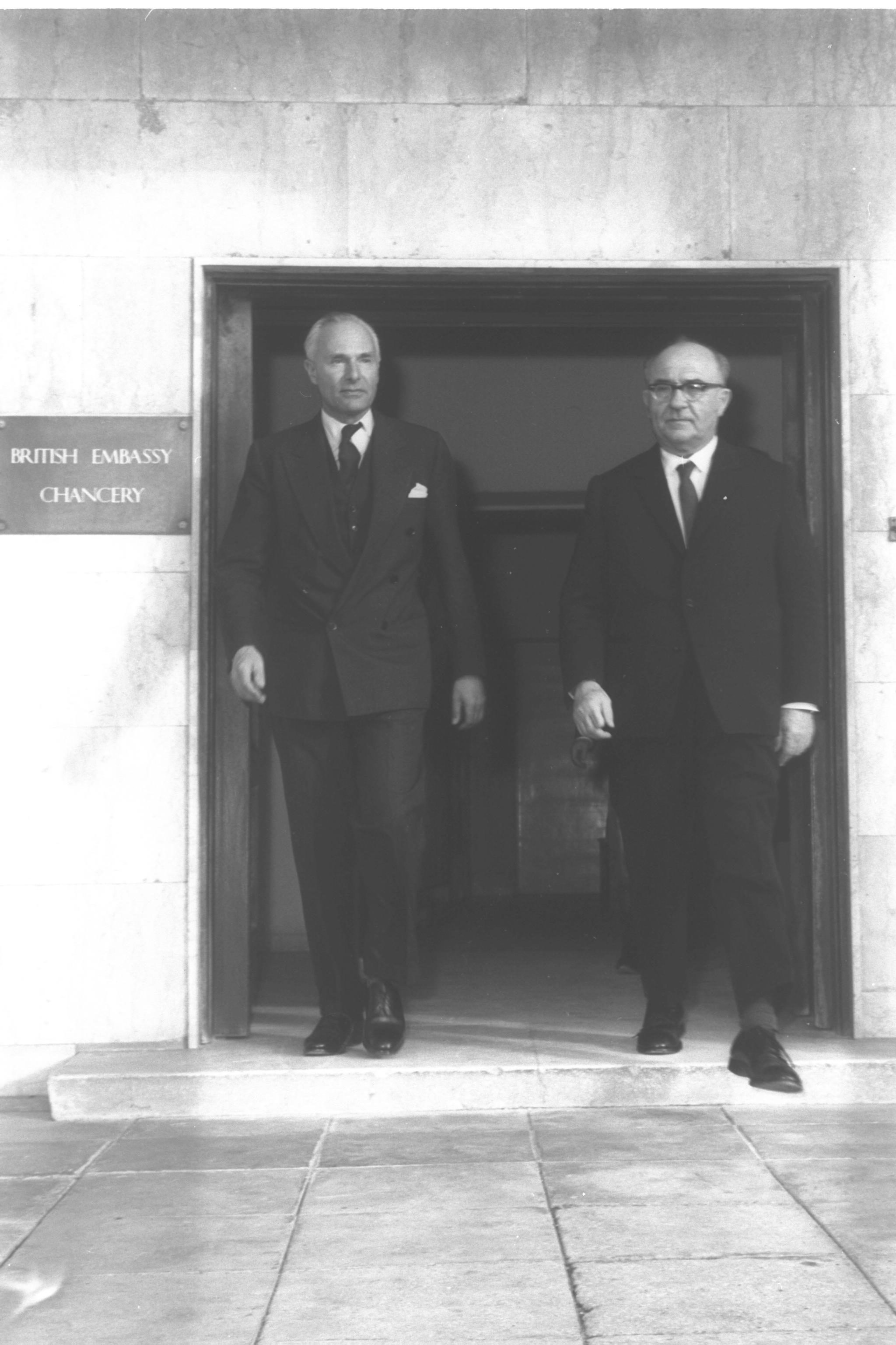 PM LEVY ESHKOL, ACCOMPANIED BY BRITISH AMBASSADOR JOHN BEITH, LEAVING BRITISH EMBASSY, TEL AVIV, AFTER SIGNINGREGISTER IN MEMORY OF THE LATE SIR WINSTON CHURCHILL.